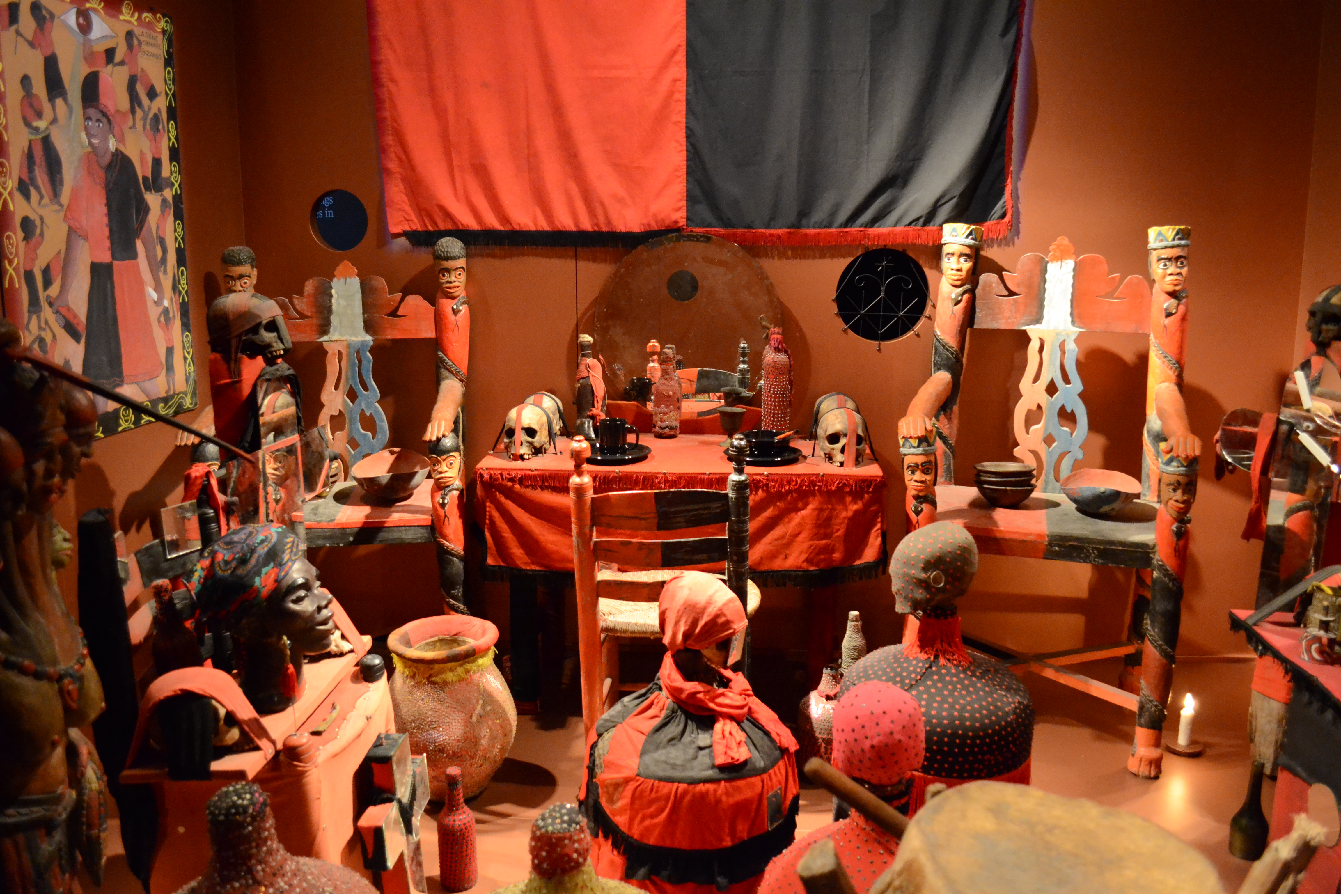 Another interesting temporary exhibit at the Canadian Museum of Civilization was this Haitian Voodoo exhibit. There were signs at the entrance warning weak hearted people to keep away as they could find some of the artefacts frightening or grisly as there were also bodies and body parts there. Photography was prohibited, but I did manage to sneak a couple of shots with my SLR. This room is filled with voodoo related doodads used by those practicing voodoo. (Ottawa, Canada, Dec. 2012)